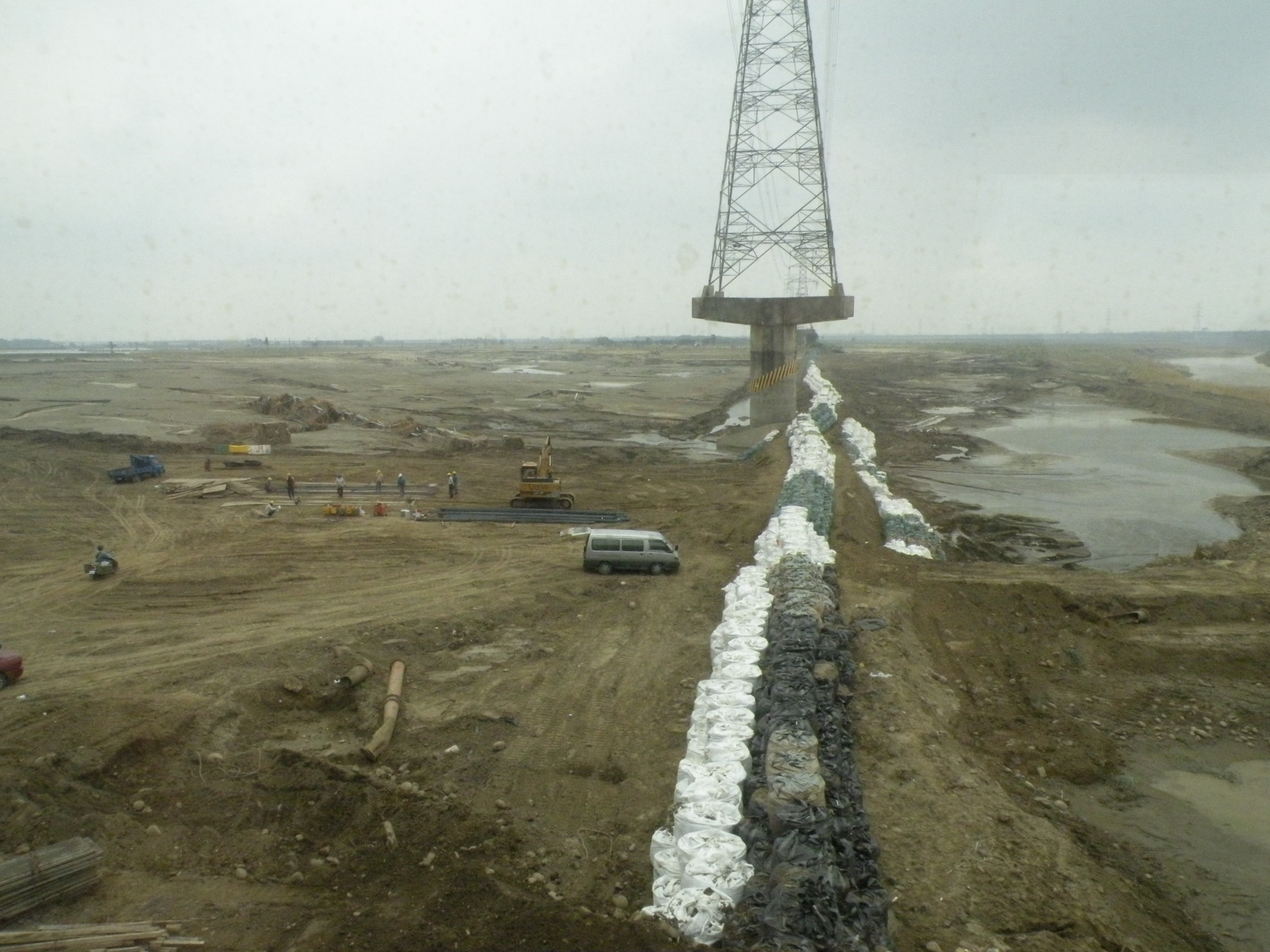 The embankment of Zengwen River in Shanhua, Tainan, Taiwan, it was destroyed by flood Aug 8 (taking picture from trains).